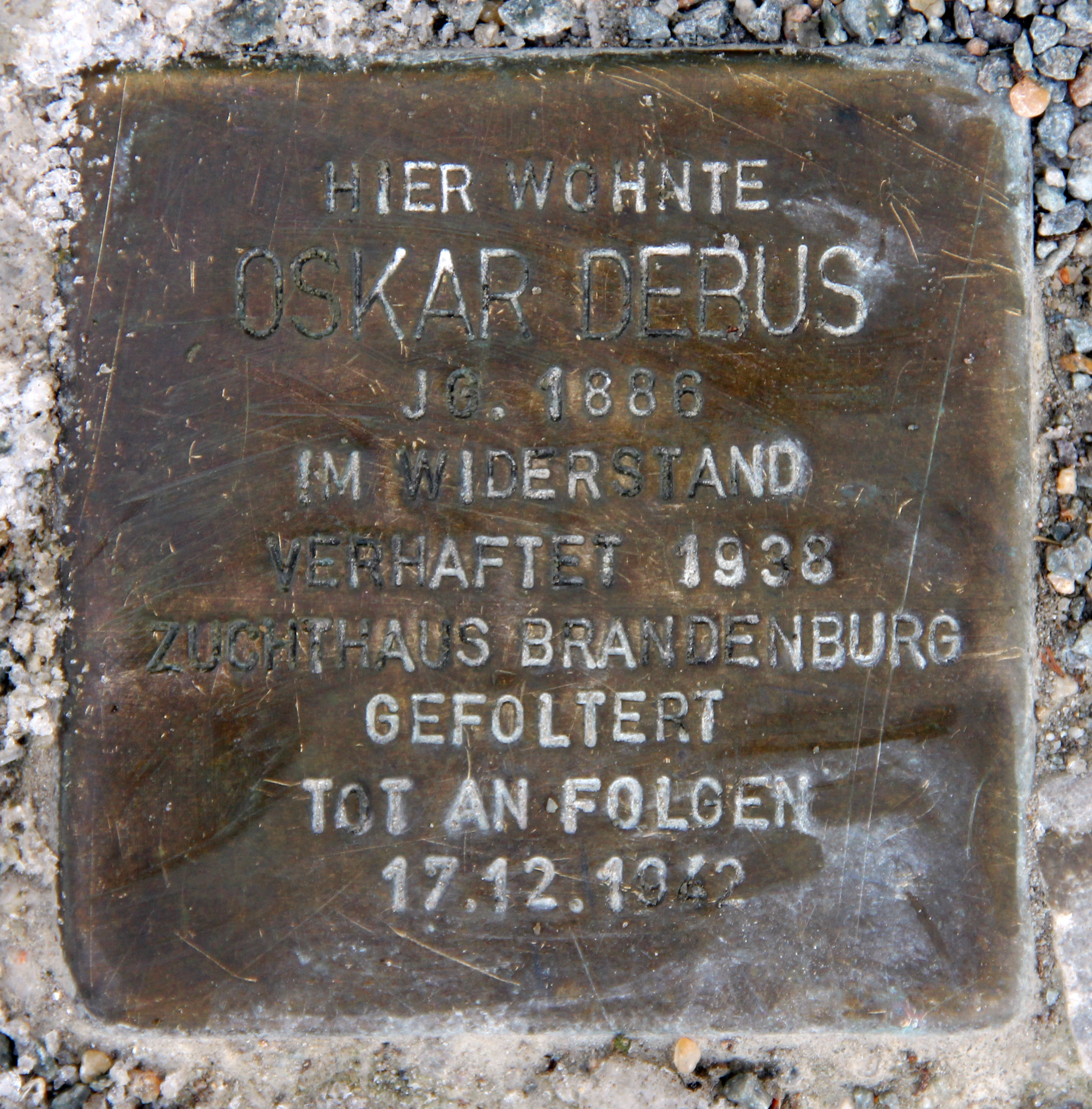 "Stolperstein" (stumbling block), Oskar Debus, Josef-Orlopp-Straße 50, Berlin-Lichtenberg, Germany